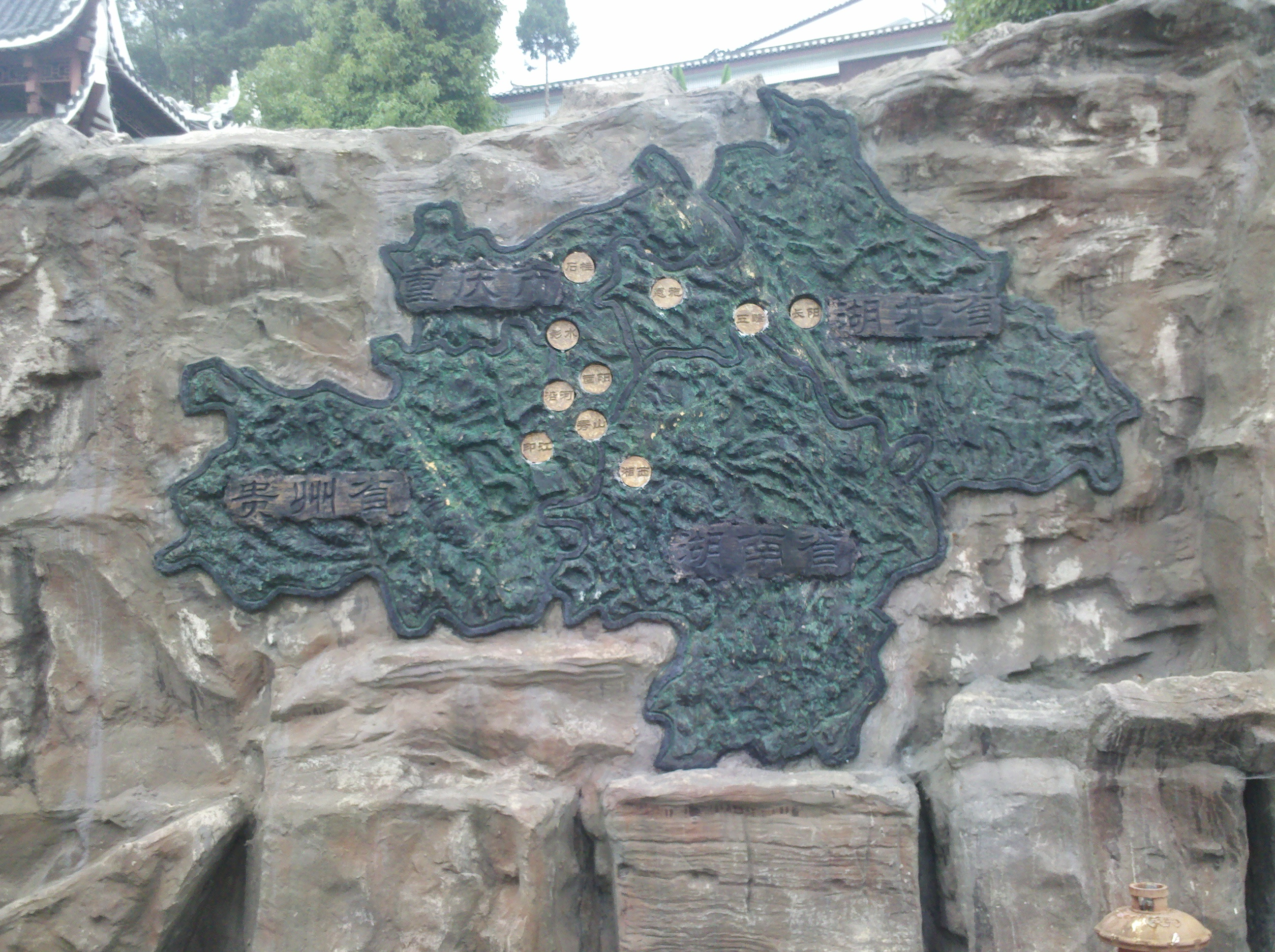 Tujia profile in qingjiang gallery